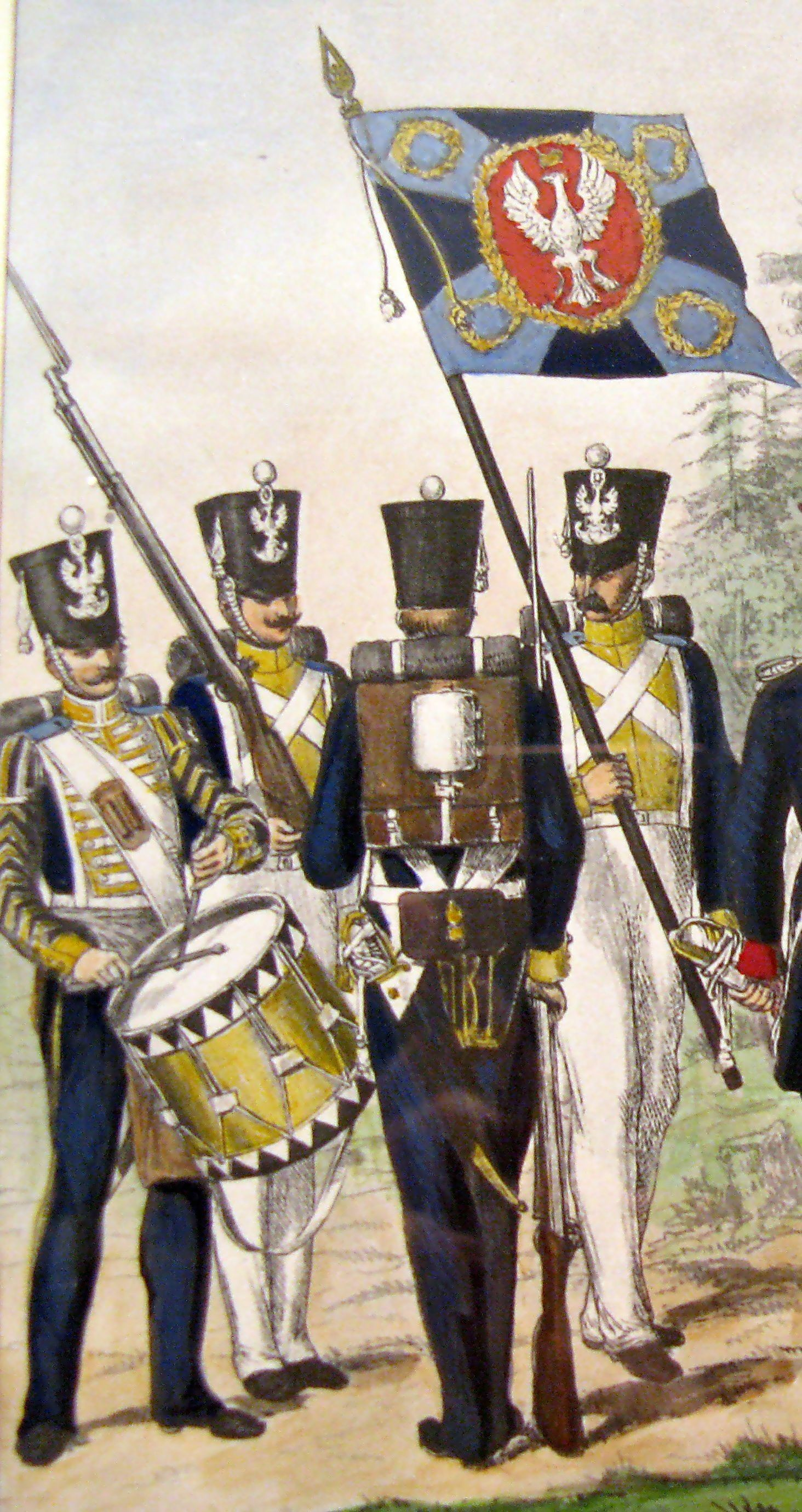 Soldiers of the 5th, 6th and 7th Infantry Regiments of the Polish Army during November Uprising; a cropped version of a larger image depicting uniforms of Polish forces of the November Uprising